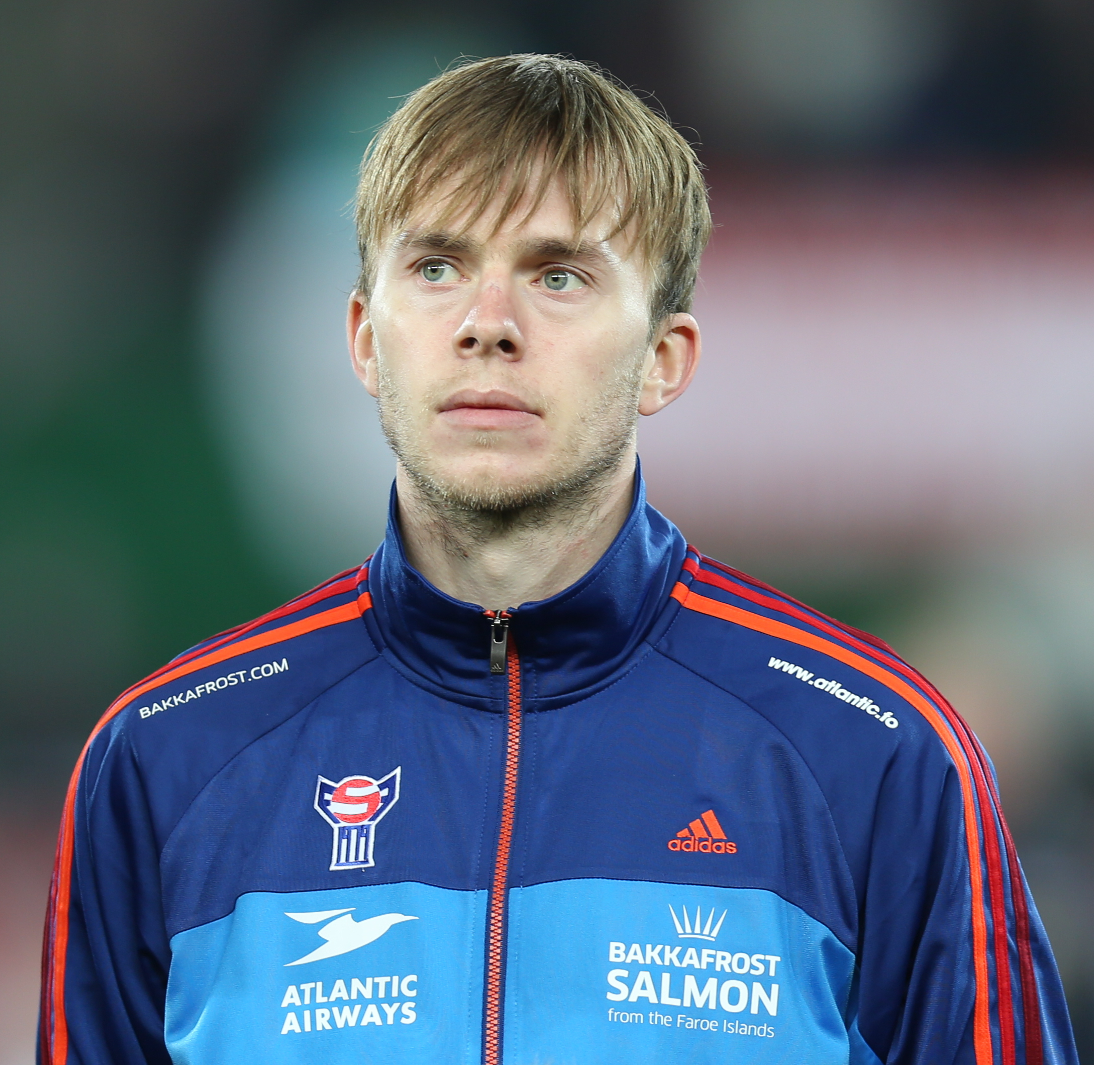 2014 FIFA World Cup qualification (UEFA), Group C: Austrian national football team vs. Faroer Islands national football team (6:0) at 22. March 2013 in the Ernst-Happel-Stadion in Vienna. Here: Símun Samuelsen, midfielder of the Faroe Islands. The making of this work was supported by Wikimedia Austria. For other files made with the support of Wikimedia Austria, please see the category Supported by Wikimedia Österreich.